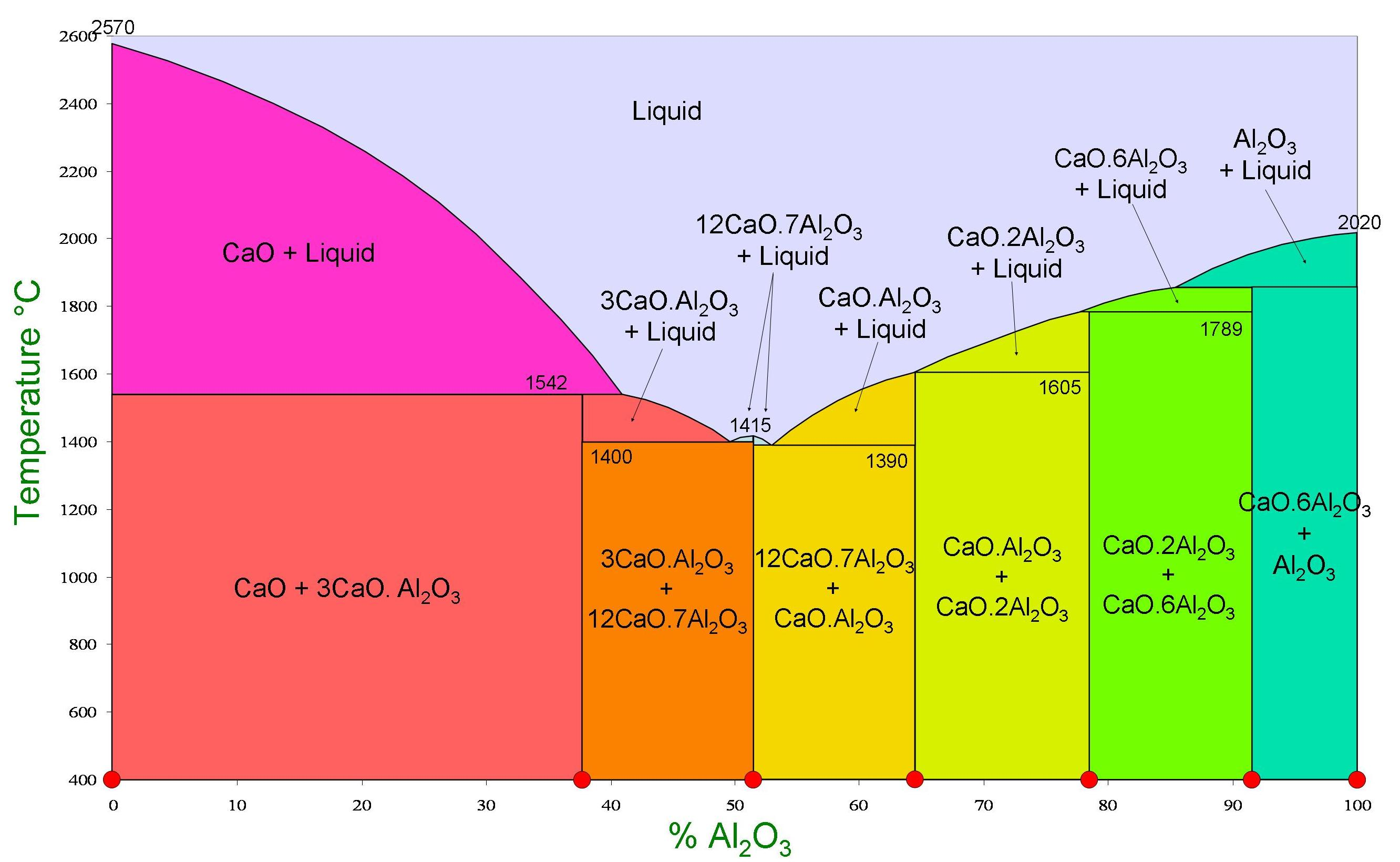 Phase diagram of the CaO-Al2O3 system